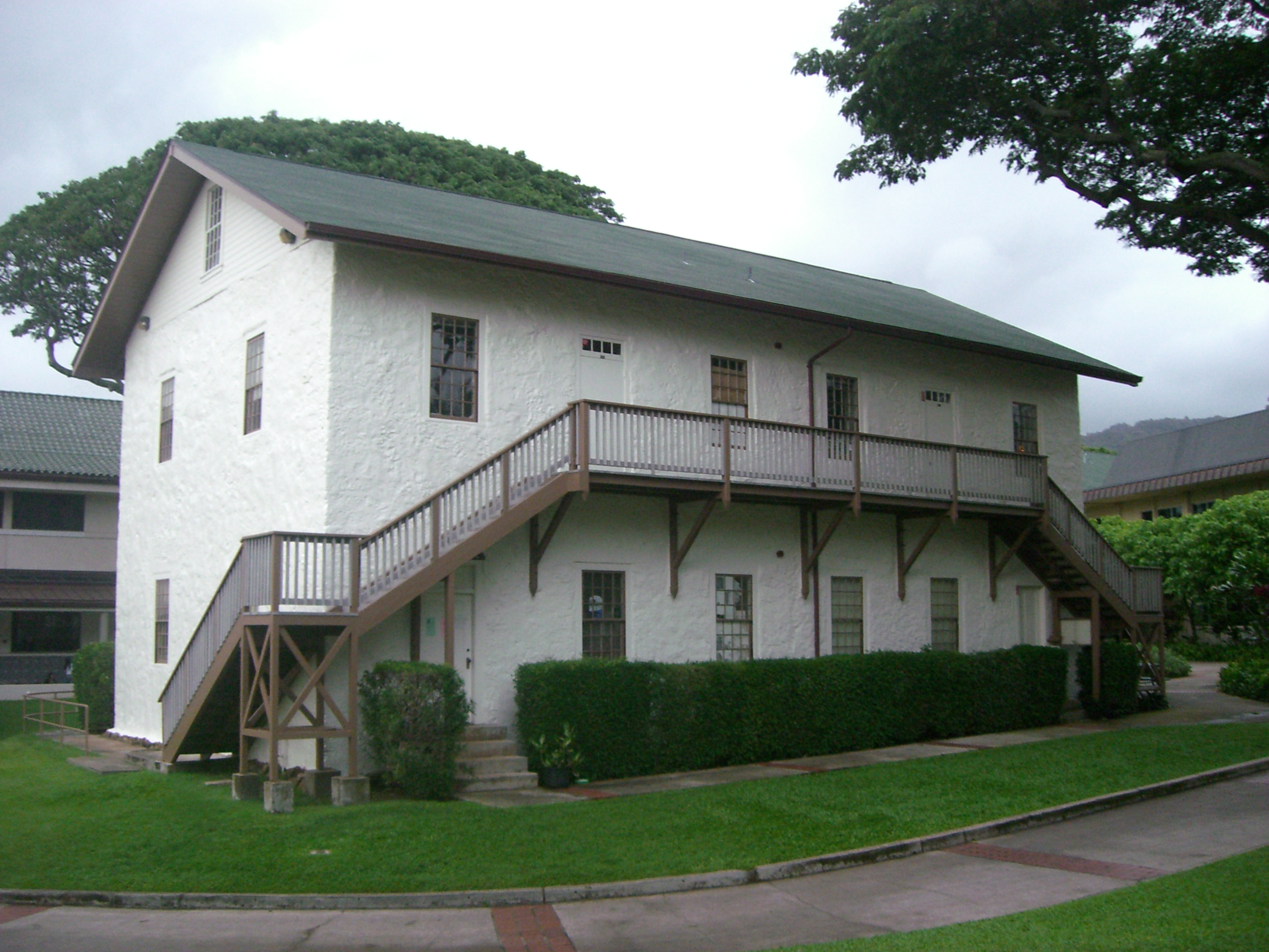 Old School Hall, the oldest standing building in Punahou School